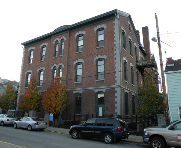 Picture of Birmingham Public School (also known as St. Adalbert's Middle School) located at 118–128 South 15th Street in the South Side Flats neighborhood of Pittsburgh, Pennsylvania, on November 22, 2009. The school was built around 1870, and is listed on the National Register of Historic Places. Architectural style: Italianate.